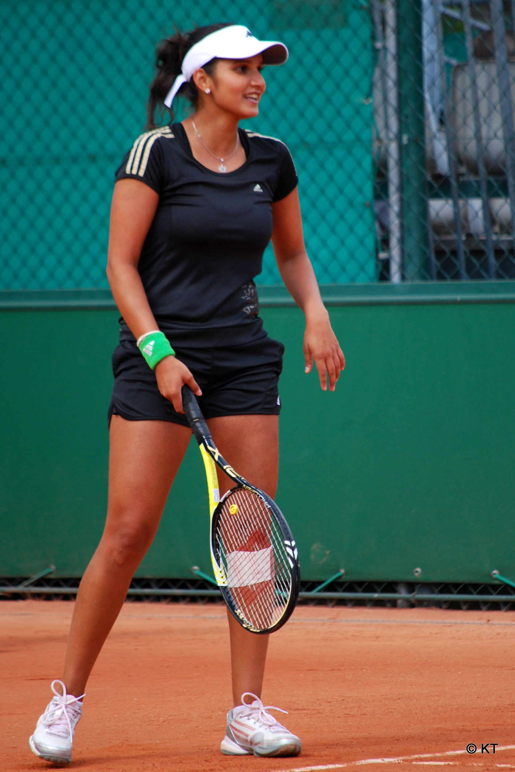 Sania Mirza on the practice court with doubles partner Elena Vesnina. Roland Garros 2011.